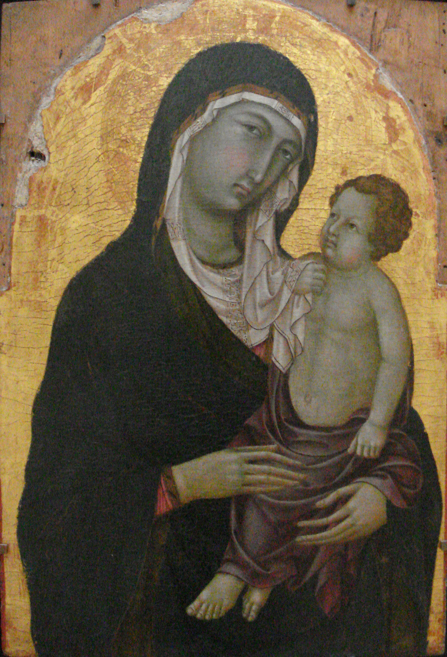 main panel of a polyptych. Painted.